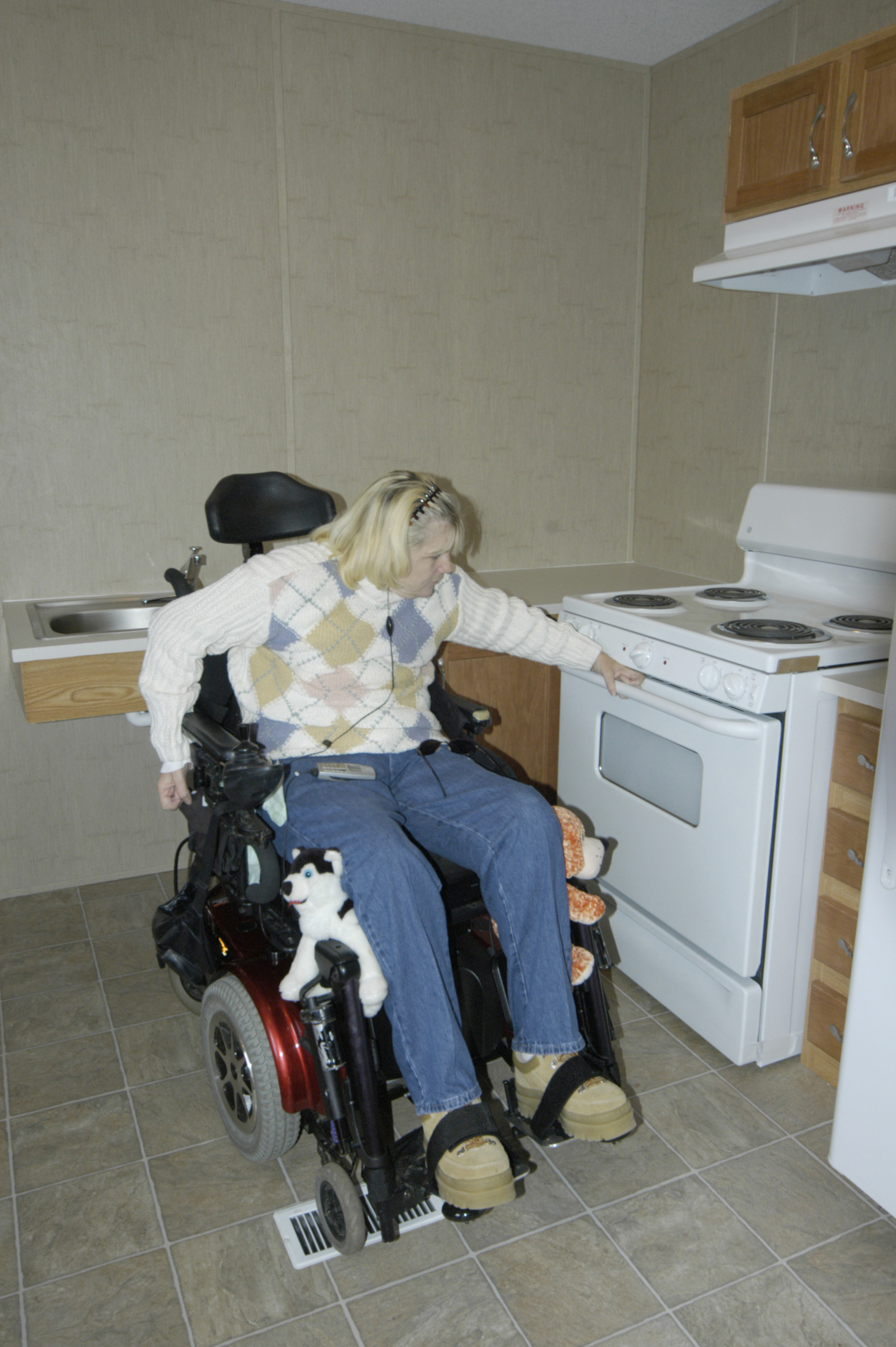 Puvis, MS., December 16, 2005 - Vicki Killingsworth, the incoming president of Living Independence for Everyone (LIFE), inspects a FEMA ADA-compliant trailer on exhibit at the Purvis, MS staging area. The interior of the trailer has been configured to allow people with physical disabilities to be able to use the trailer. Patsy Lynch/FEMA